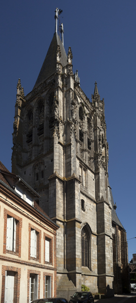 L'église Saint-Martin; L'Aigle, Basse-Normandie, Orne, France; ; ref: PM_093591_F_LAigle; ; Photographer: Paul M.R. Maeyaert; © Paul M.R. Maeyaert; ; Cultural heritage; Europeana; Europe/France/L'Aigle